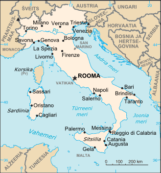 Map of Italy in Estonian.